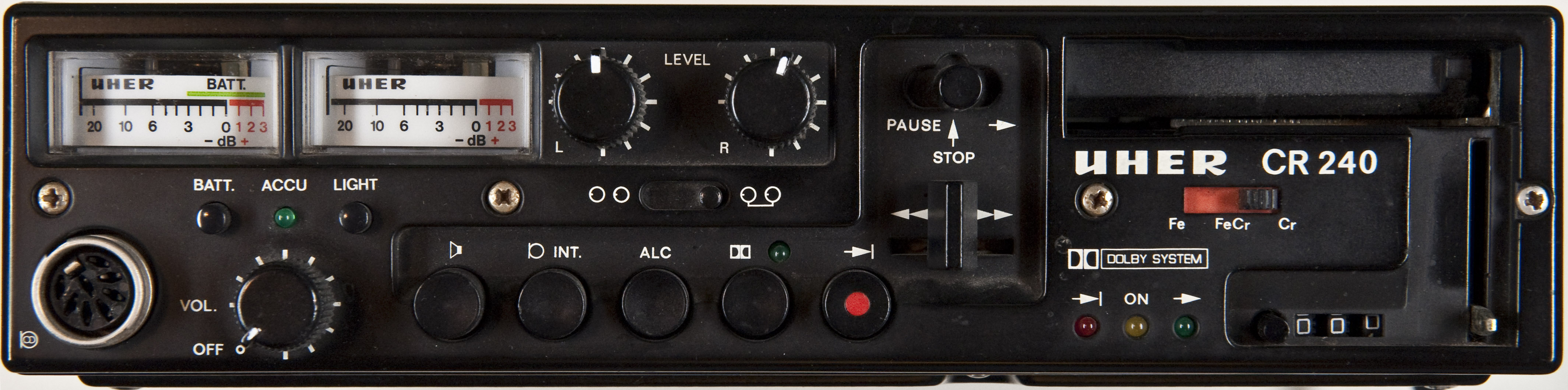 Tape recorder CR240 of Uher